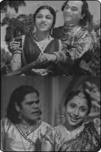 Screen shots from 1944 Tamil film Haridas. The upper panel show T.R. Rajakumari and M.K. Thyagaraja Bhagavather. The lower half shows N.S. Krishnan-T.A. Maduram